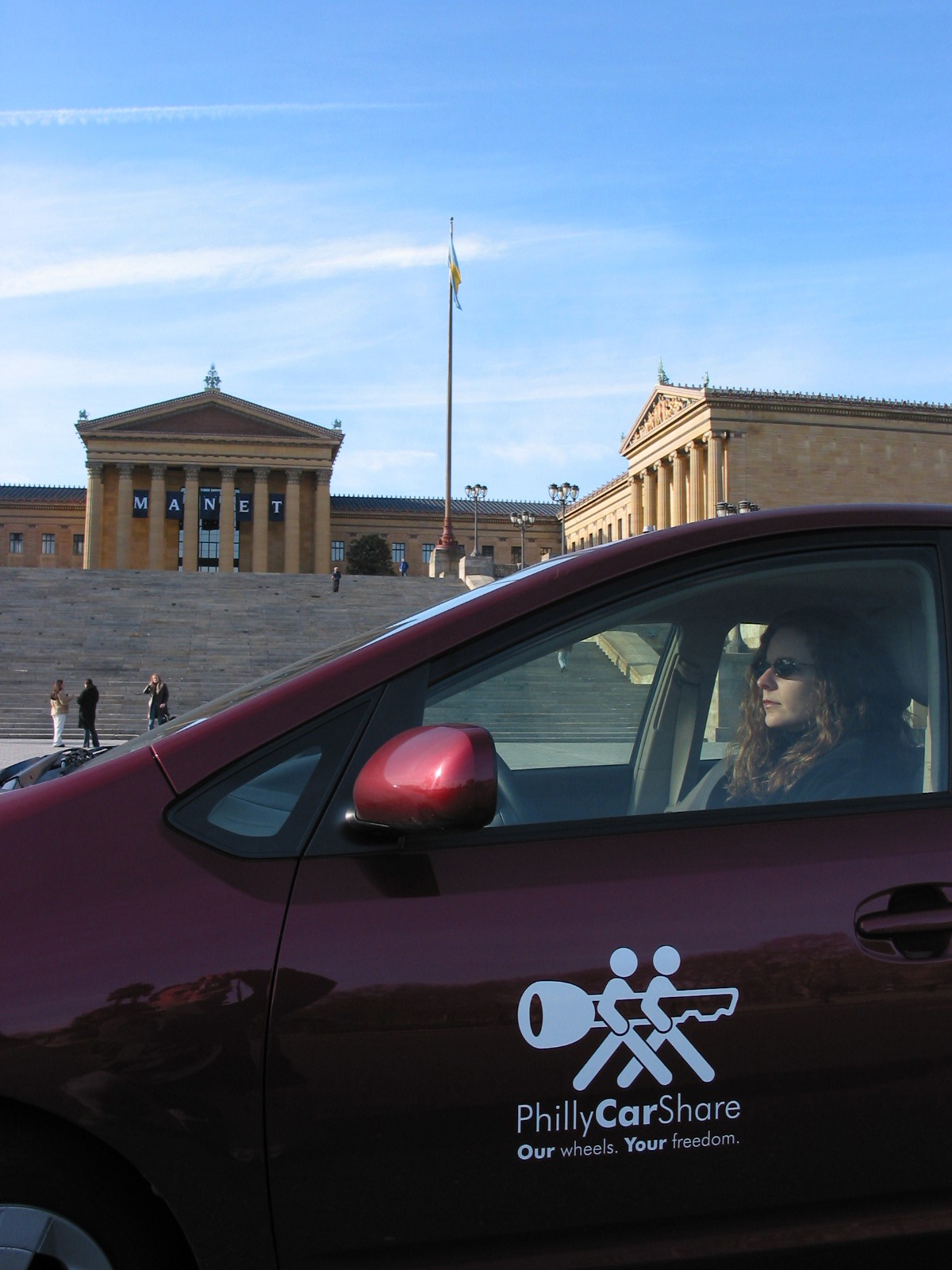 PhillyCarShare Prius in front of the Rocky Steps in Philadelphia - Driver Tanya Seaman